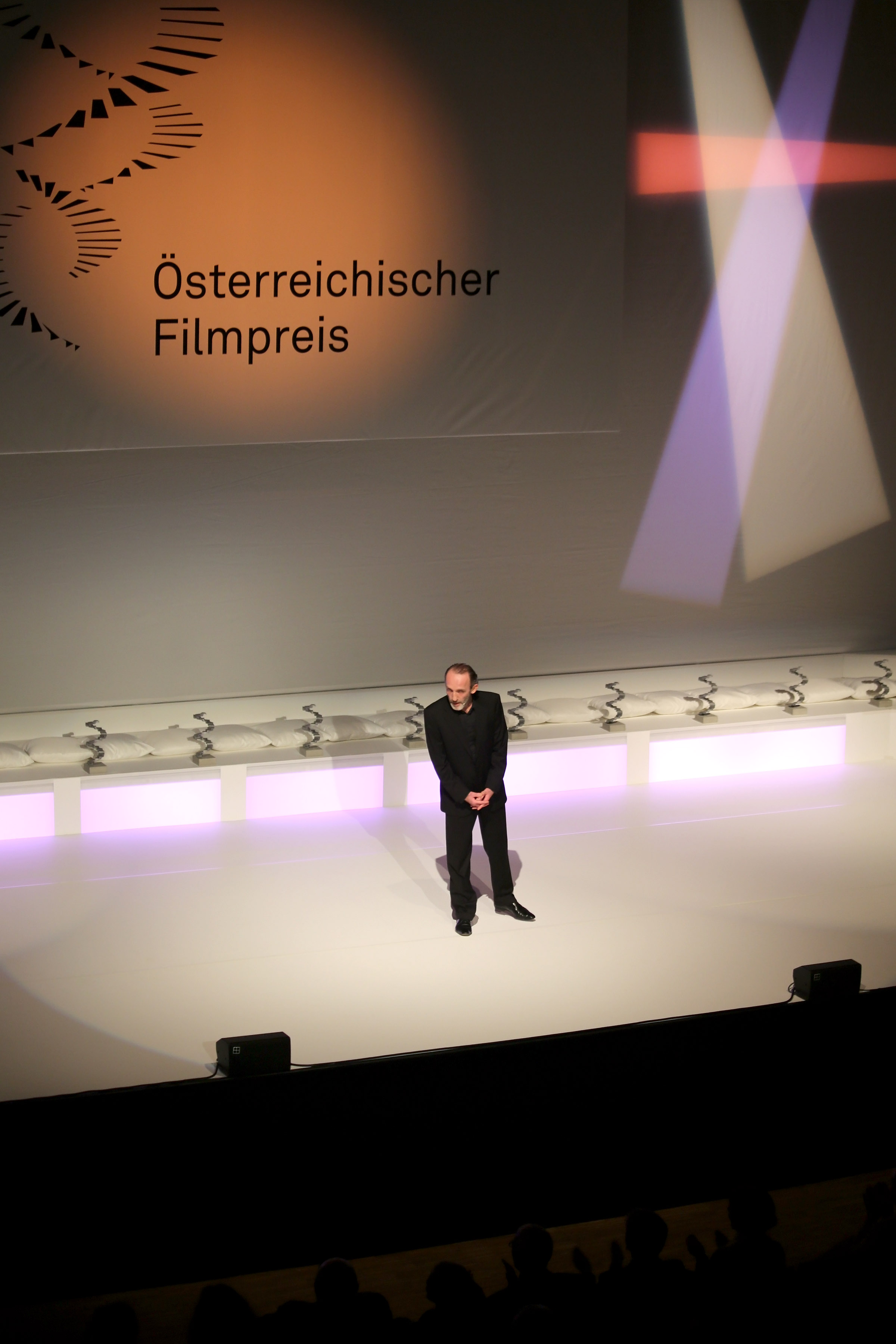 Karl Markovics presenting the Austrian Film Awards 2014 (Grafenegg, Austria).